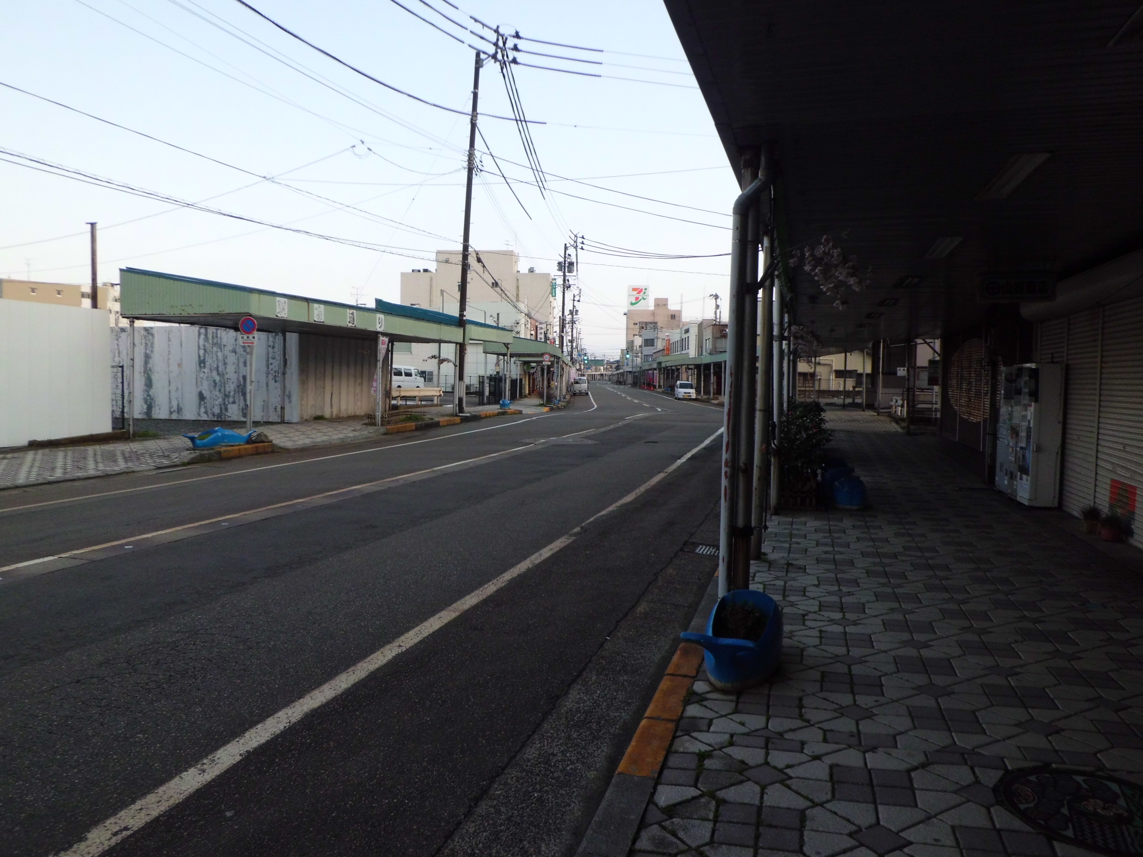 Niigata prefectural road 37 Kashiwazaki Station line. Looking north from the station in Kashiwazaki city, Niigata prefecture, Japan.